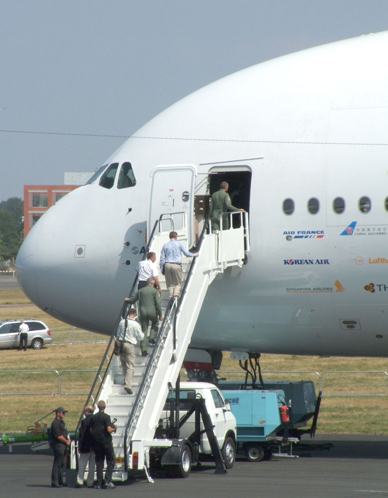 Boarding, Farnborough 2006